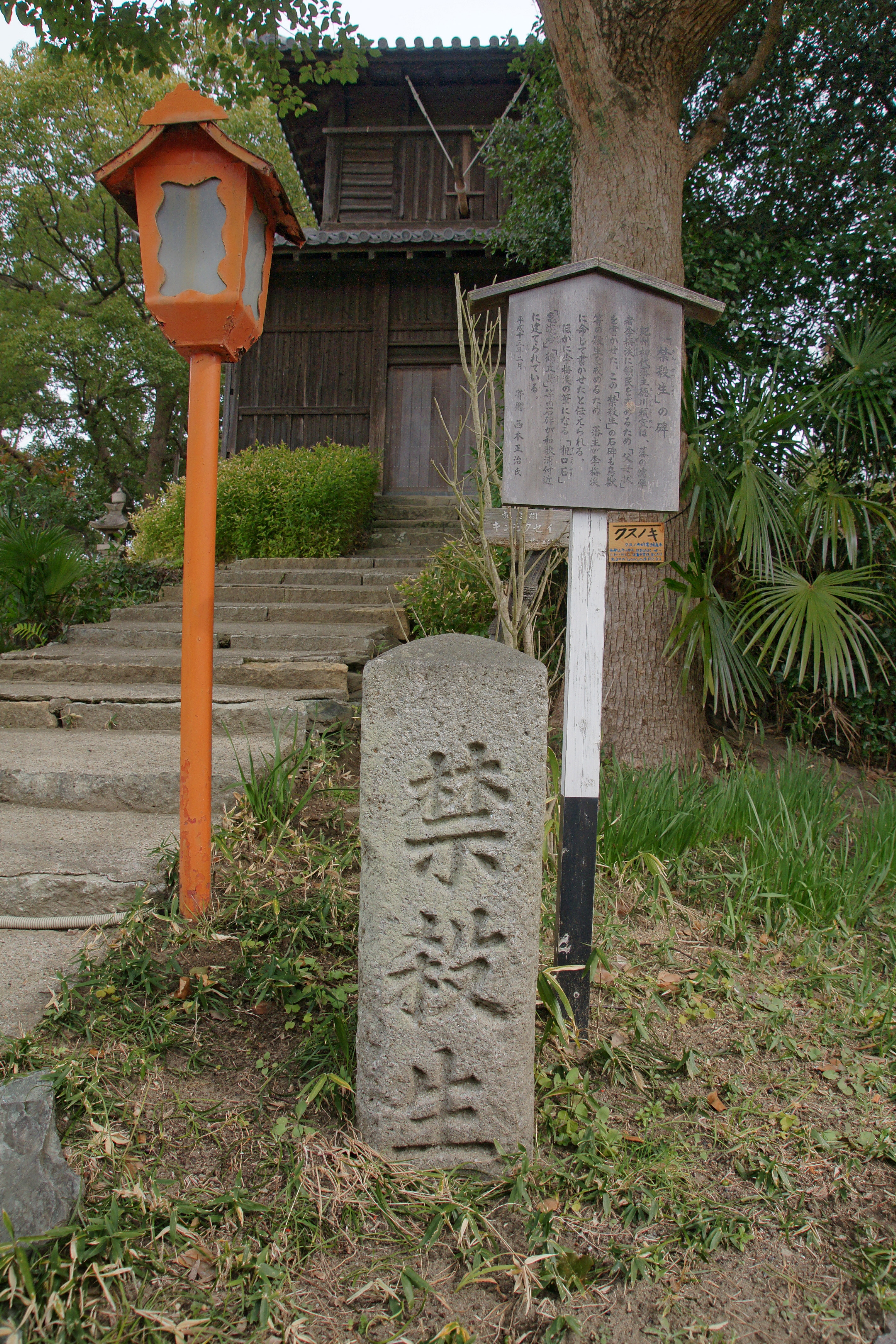 Okayama-no-Jishodo, Wakayama, Wakayama prefecture, Japan